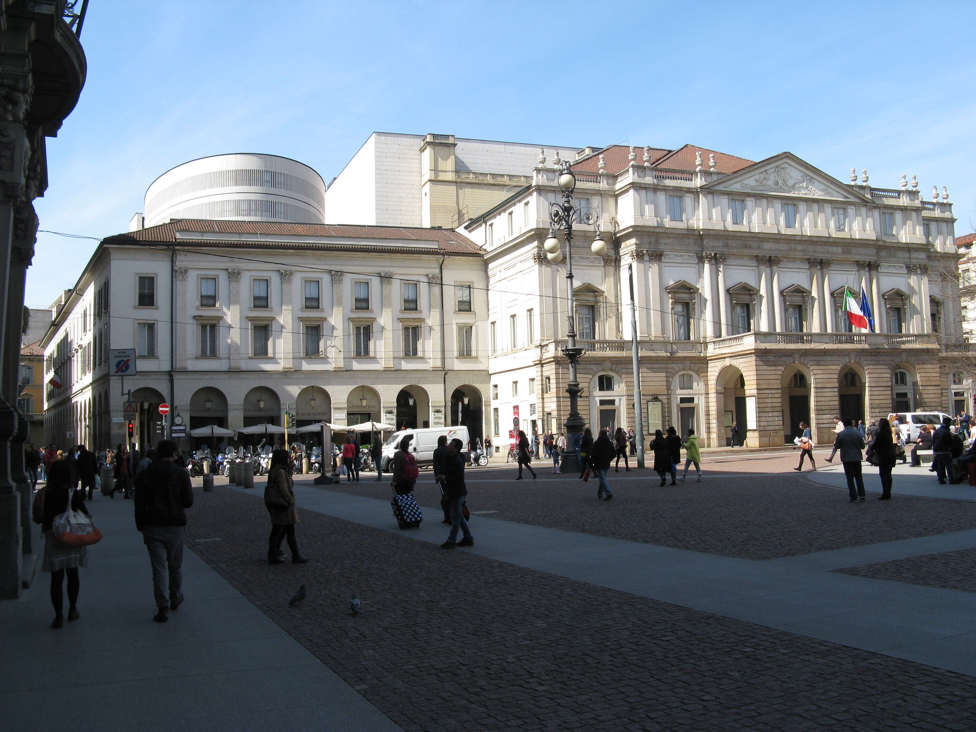 Exterior of Teatro alla Scala.